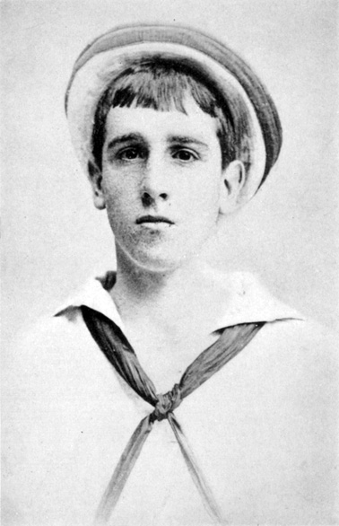 Midshipman Yates Stirling, Jr.